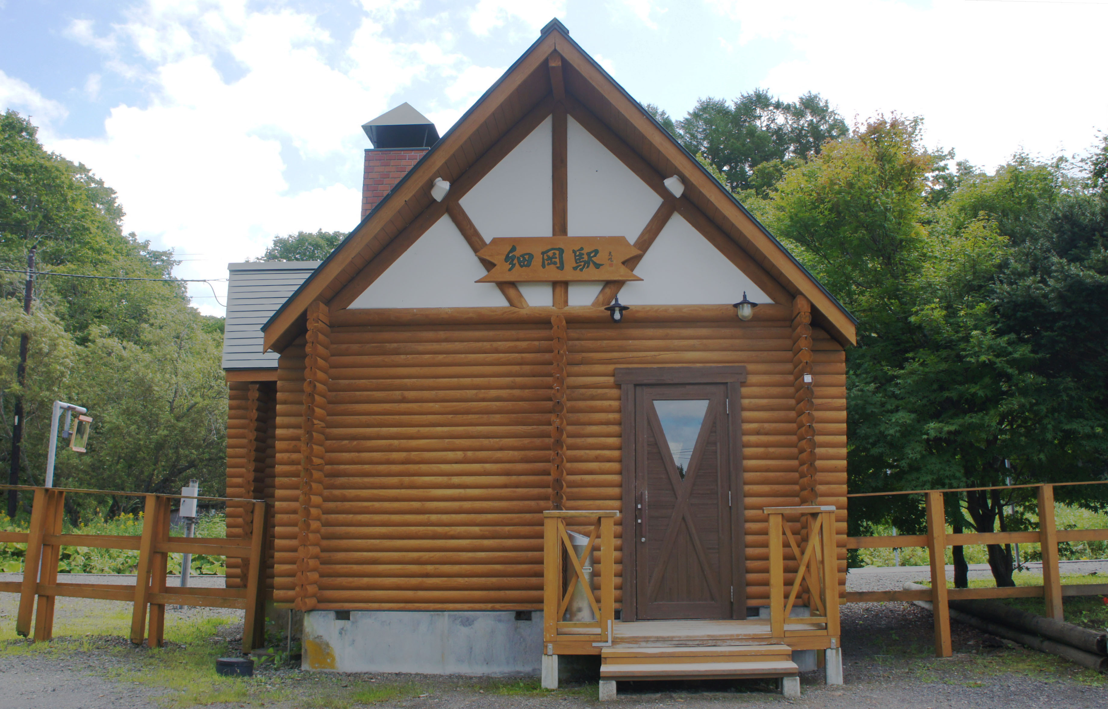 Station building of JR Senmo-Main-Line Hosooka Station